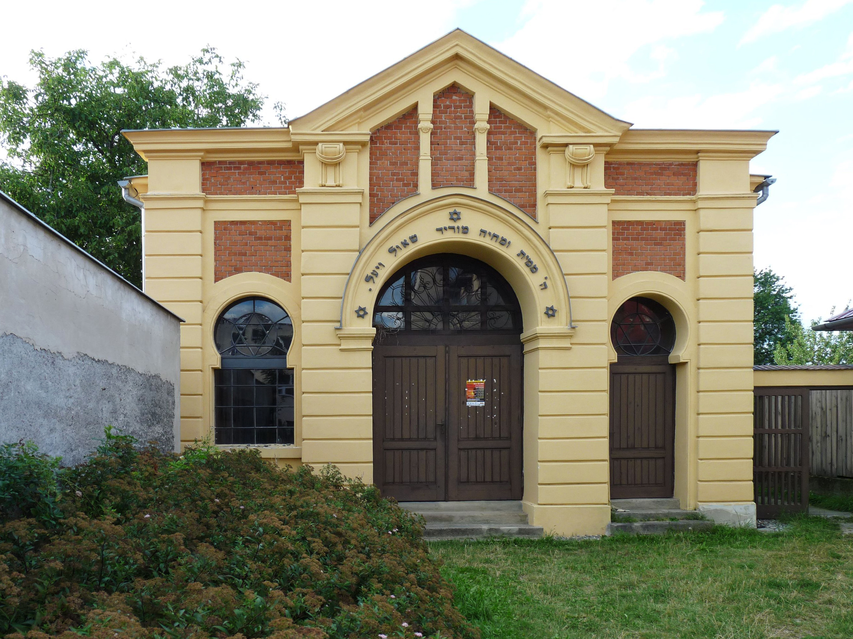 Jewish cemetery in the town of Holešov, Kroměříž District, Zlín Region, Czech Republic.